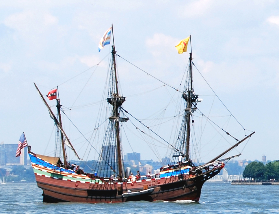 Replica of Henry Hudson's ship Halve Maen approaching the southern tip of Manhattan